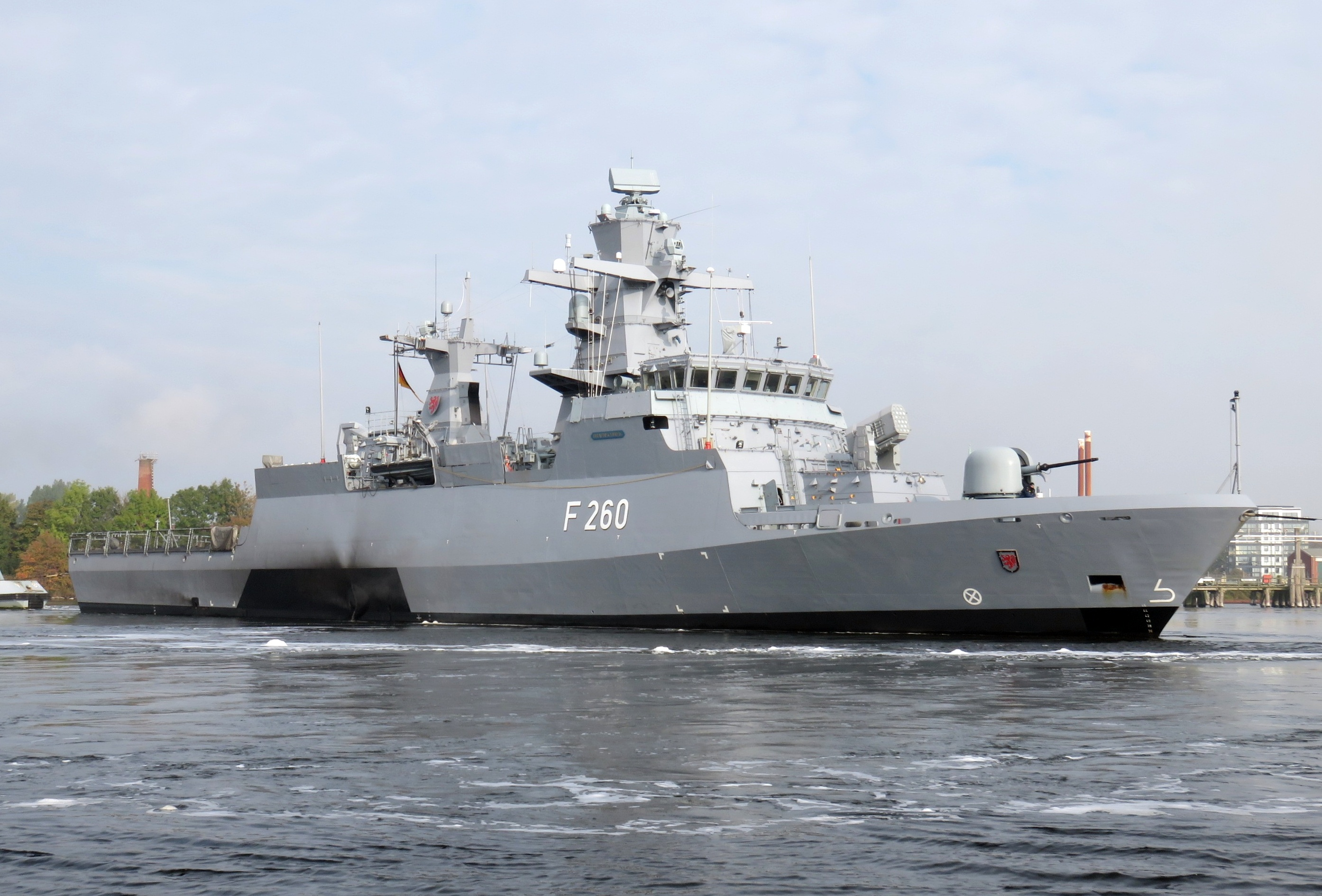 German corvette Braunschweig at the deperming range in Wilhelmshaven